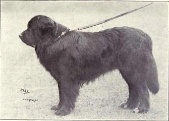 Newfoundland (Black) from 1915